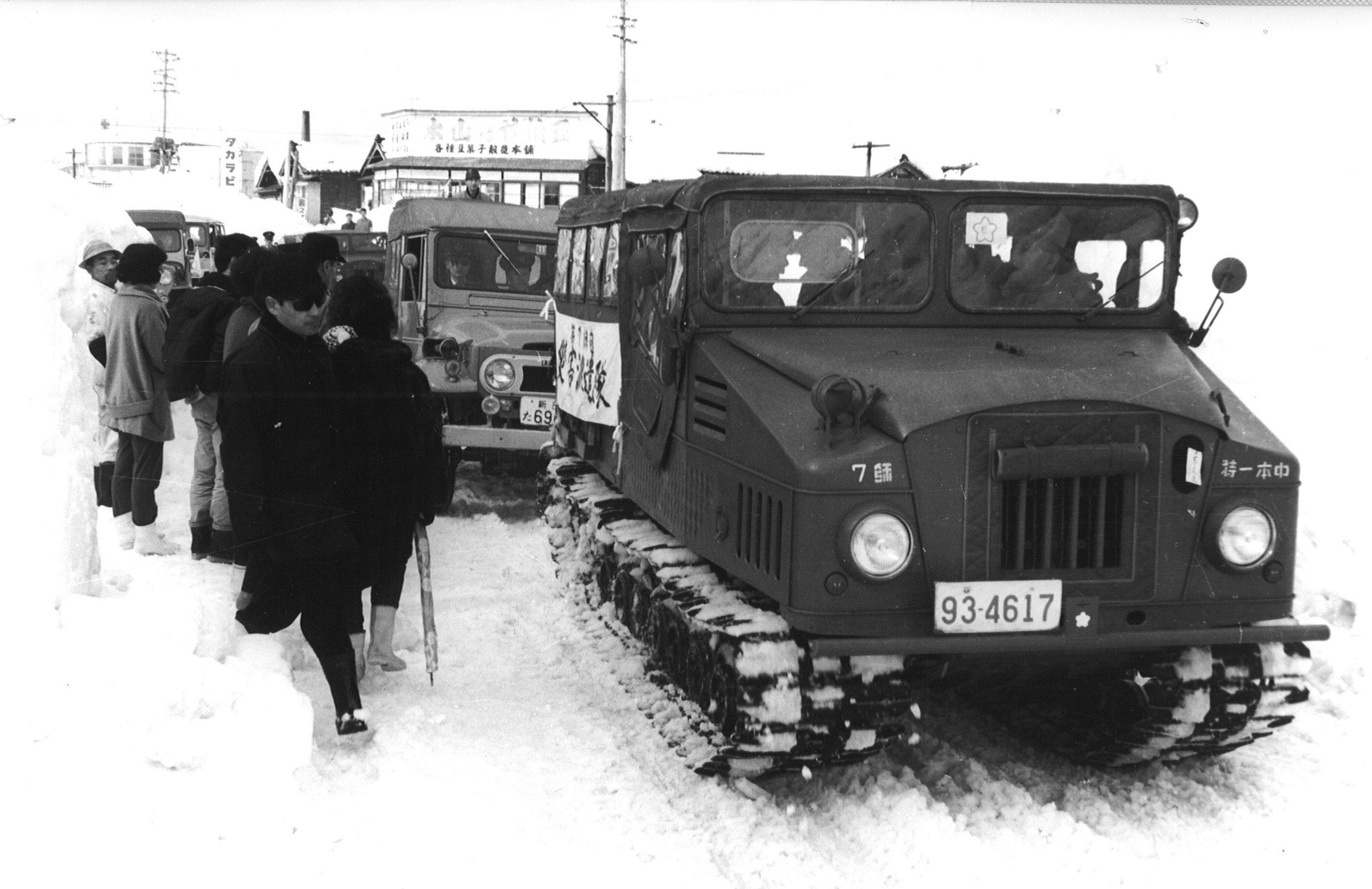 Scene of Nagaoka City at the time of the heavy snowfall of January 1963